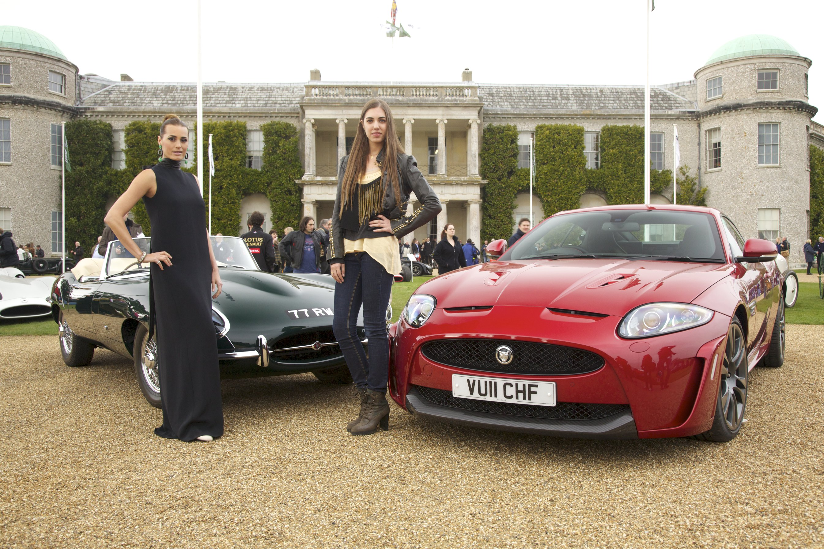 Yasmin Le Bon and daughter Amber with the E-Type and XKR-S